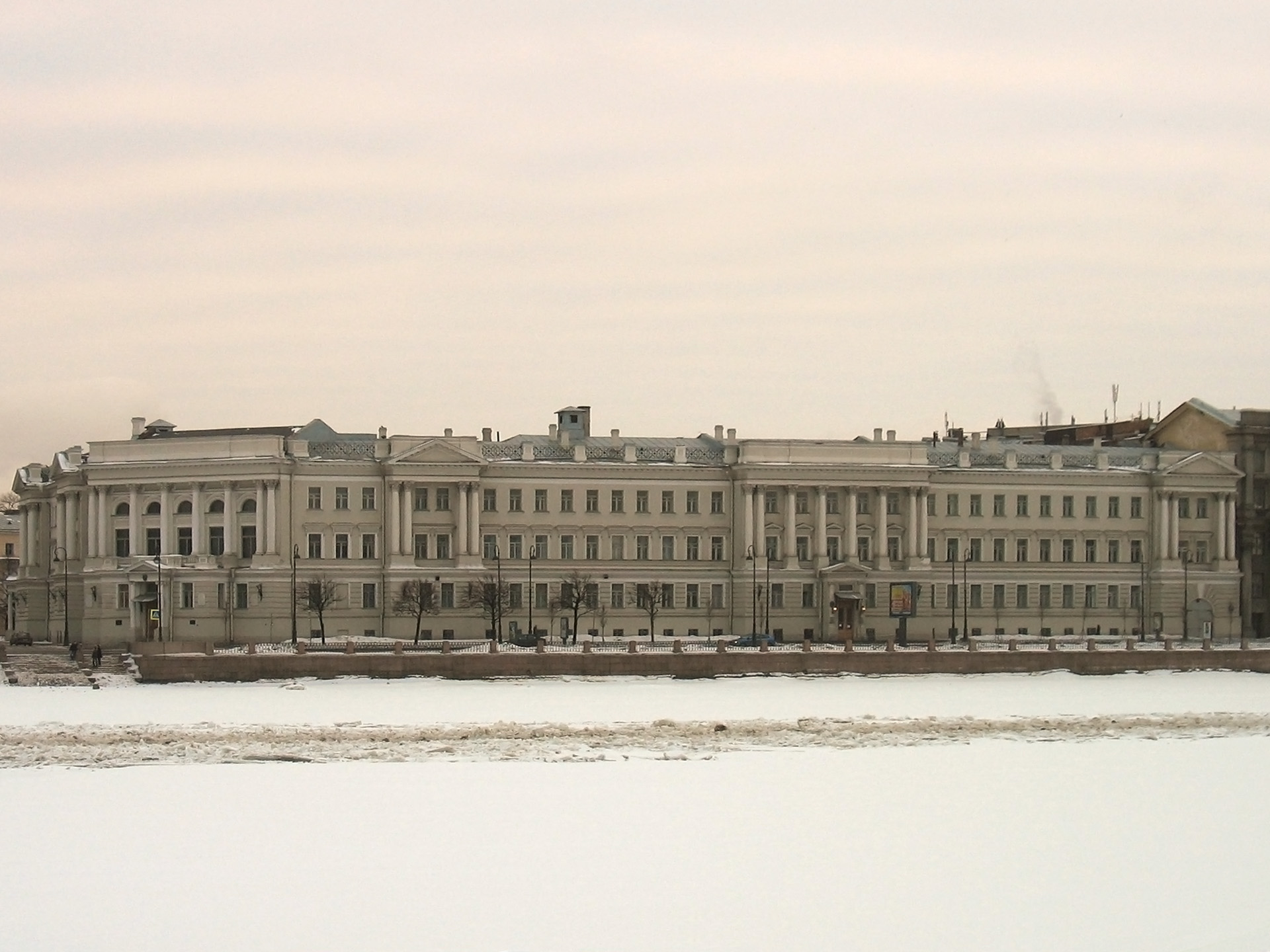 Saint Petersburg (Russia), Makarova embankment, 6